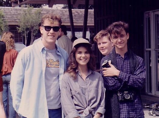 This was during a shoot for a TV movie called Brotherhood of Justice. It also starred Kiefer Sutherland, Keanu Reeves, and Billy Zane. 1986.